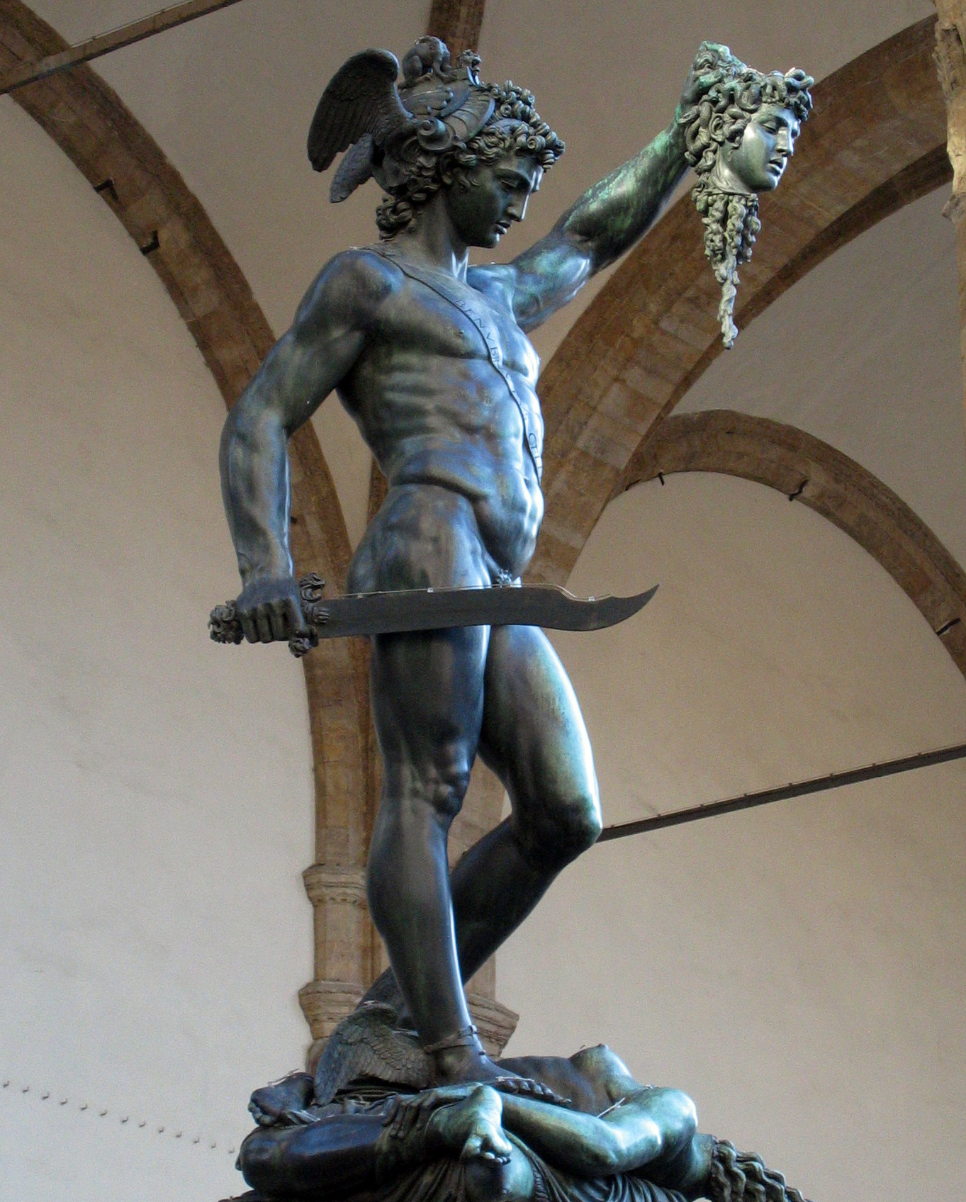 Statue of Perseus, Piazza della Signoria, Florence - Canon S45 Holding medusa head.